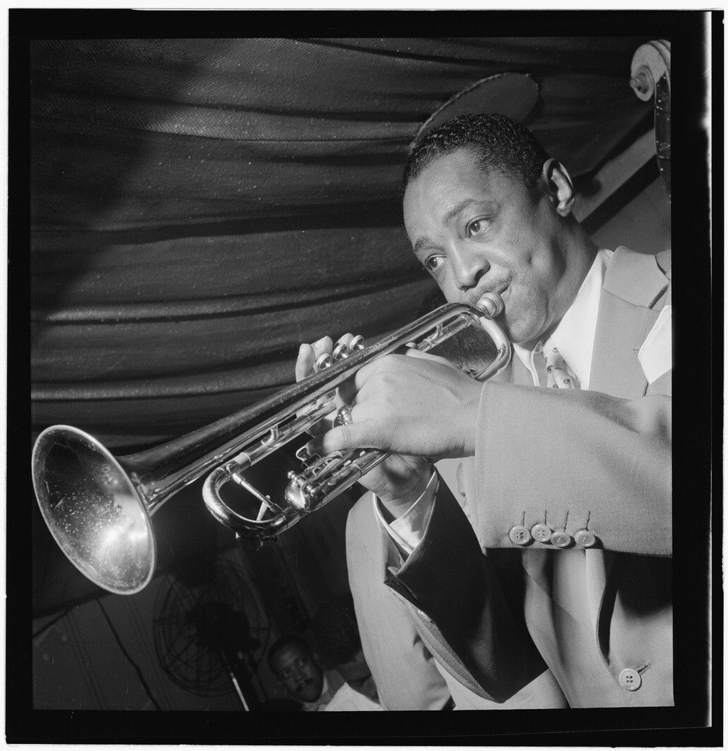 Gottlieb, William P., 1917-, photographer. [Portrait of Joe Thomas, Pied Piper, New York, N.Y., ca. Sept. 1947] 1 negative : b&w ; 2 1/4 x 2 1/4 in. Notes: Gottlieb Collection Assignment No. 296 Reference print available in Music Division, Library of Congress. Purchase William P. Gottlieb Forms part of: William P. Gottlieb Collection (Library of Congress). Subjects: Thomas, Joe Jazz musicians--1940-1950. Trumpet players--1940-1950. Pied Piper Format: Portrait photographs--1940-1950. Film negatives--1940-1950. Rights Info: Mr. Gottlieb has dedicated these works to the public domain, but rights of privacy and publicity may apply. Repository: (negative) Library of Congress, Prints & Photographs Division, Washington D.C. 20540 USA, (reference print) Library of Congress, Music Division, Washington D.C. 20540 USA, Part Of: William P. Gottlieb Collection (DLC) 99-401005 General information about the Gottlieb Collection is available at Persistent URL: Call Number: LC-GLB23- 0851 This work is from the William P. Gottlieb collection at the Library of Congress. Rights and restrictions.In accordance with the wishes of William Gottlieb, the photographs in this collection entered into the public domain on February 16, 2010.